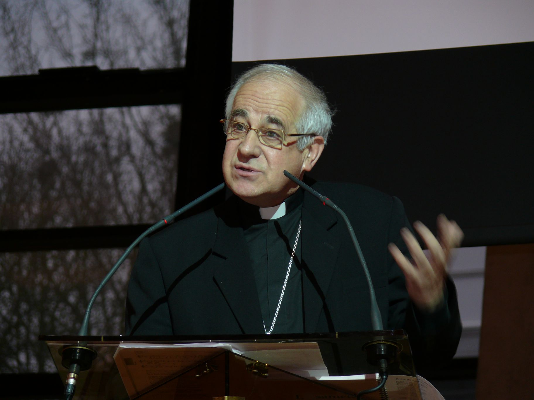 Jean-Yves Riocreux, bishop of Pontoise (Val-d'Oise, France), at the National Meeting of Chrétiens en Grande École (Christians in High School) in Pontoise (Val-d'Oise, France) in February 2009.